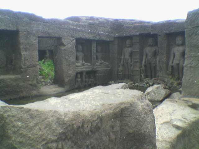 Picture of Jain Tirthankars at Pandavleni complex B in Gomai river Shahada, Maharashtra